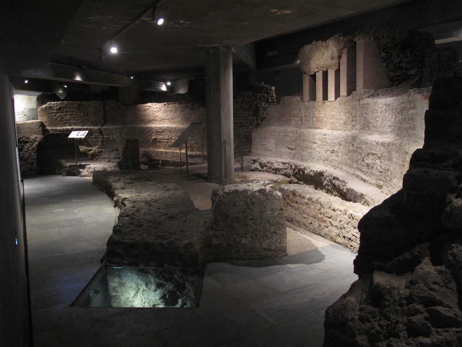 Basilica of Saint Tecla Milan. Ruin of the apse. The lower inner wall is 4th century (or early 5th century). The raised external wall is dated 5th or 6th century